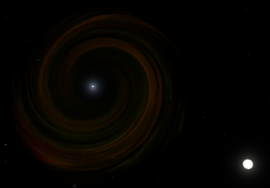 The Epsilon Aurigae system simulated with Celestia